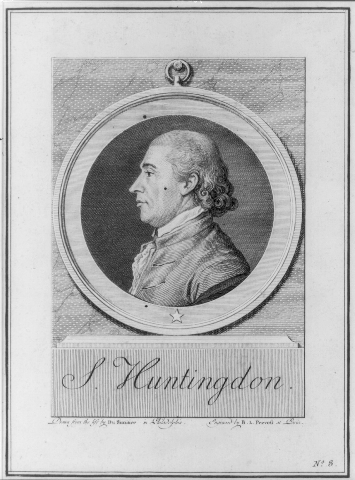 Samuel Huntington, 1731-1796, drawn from the life by Du Simitier in Philadelphia; engraved by B.L. Prevost at Paris.